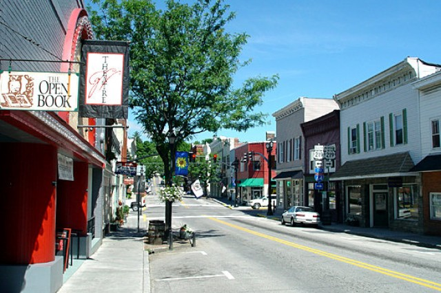 This is a photo of main st. in downtown Lewisburg, Greenbrier County, West Virginia.